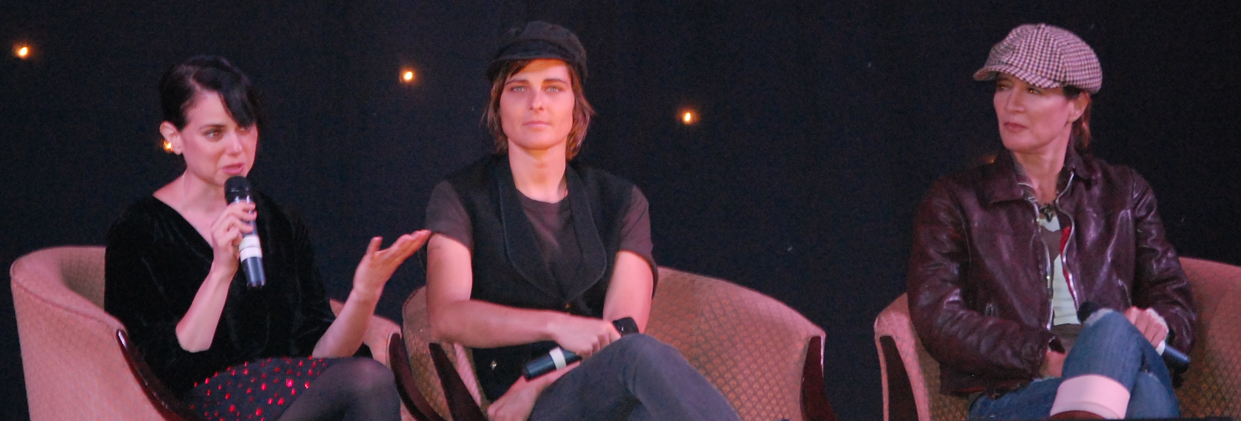 Left to right: Actresses Mia Kirshner, Daniela Sea, and Anne Ramsay, at L6, "The L Word", Fan Convention Norbreck Castle Hotel September 18-20 2009